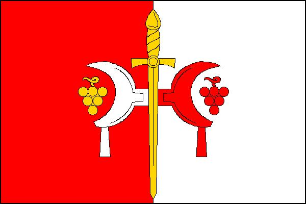 Municipal flag of Syrovín village, Hodonín District, Czech Republic.